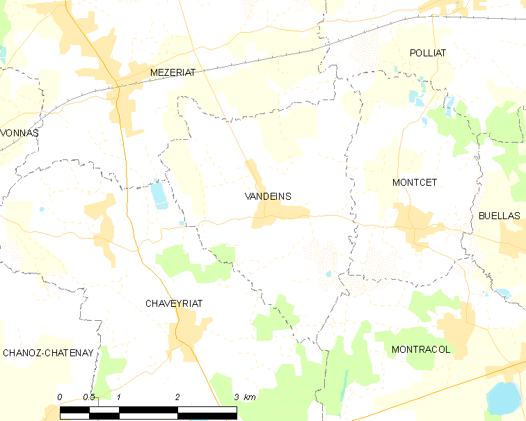 Map of French commune: Vandeins Map commune FR insee code 01429.png